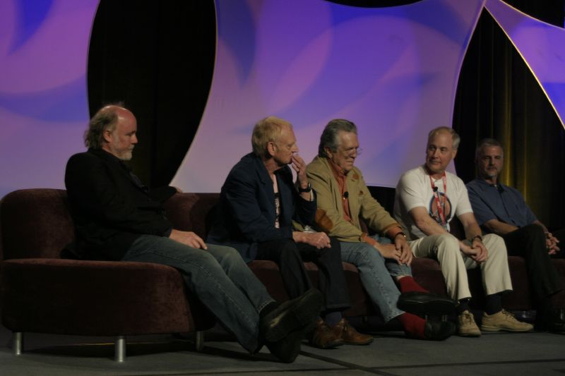 Phil Tippett, Robert Watts, Richard Edlund, Ben Burtt and Ken Ralston discuss their work on the original Star Wars. Photo by Scott Ruether. Read more at the Official Celebration IV blog.